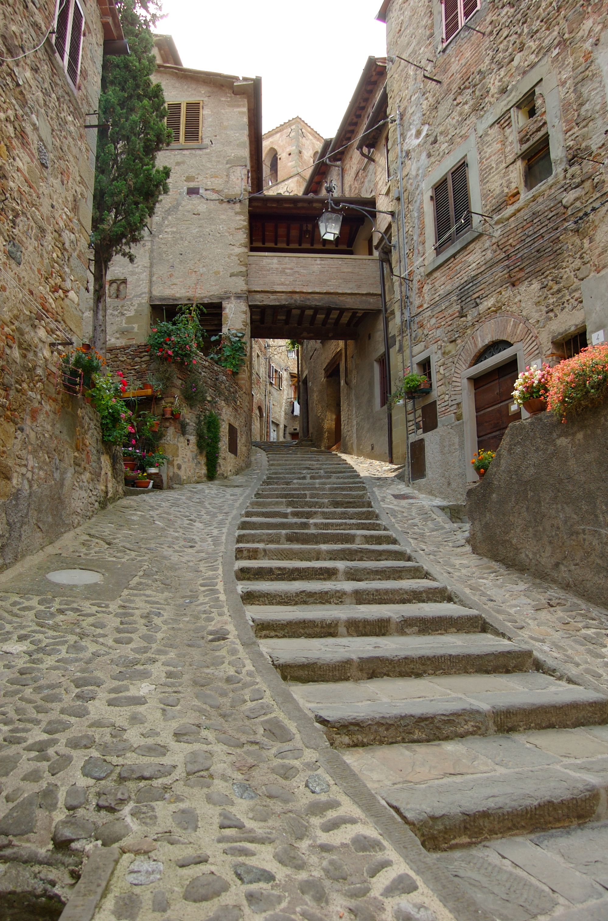 Anghiari Tuscany Path